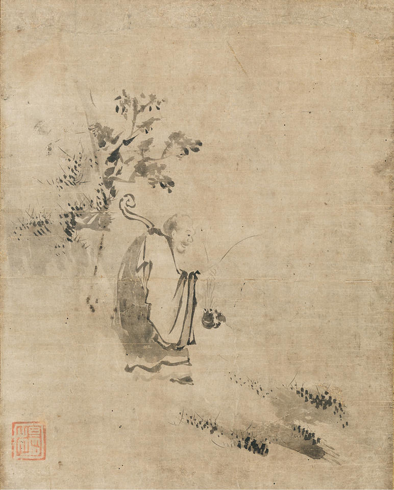 Painted by the Japanese artist Yōgetsu in the early 16th century, this ink painting of Xianzi, the Shrimp Eater is the left painting in a pair with one of Zhutou, the Pig-head Eater.